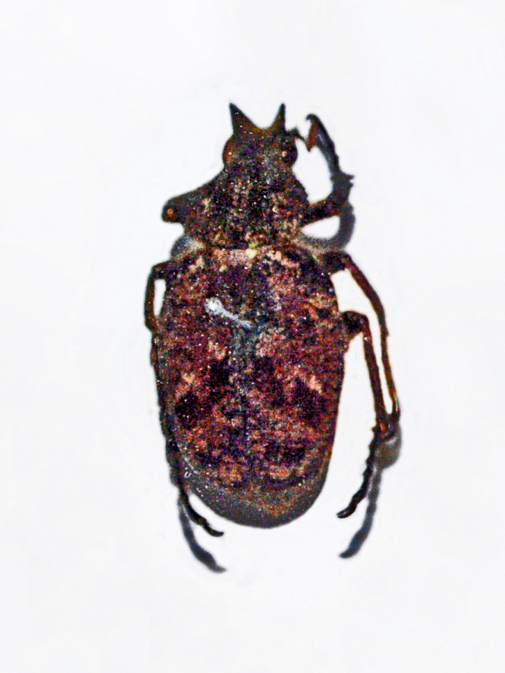 Inca bonplandi on display at the Civico Museo di Storia Naturale di Trieste